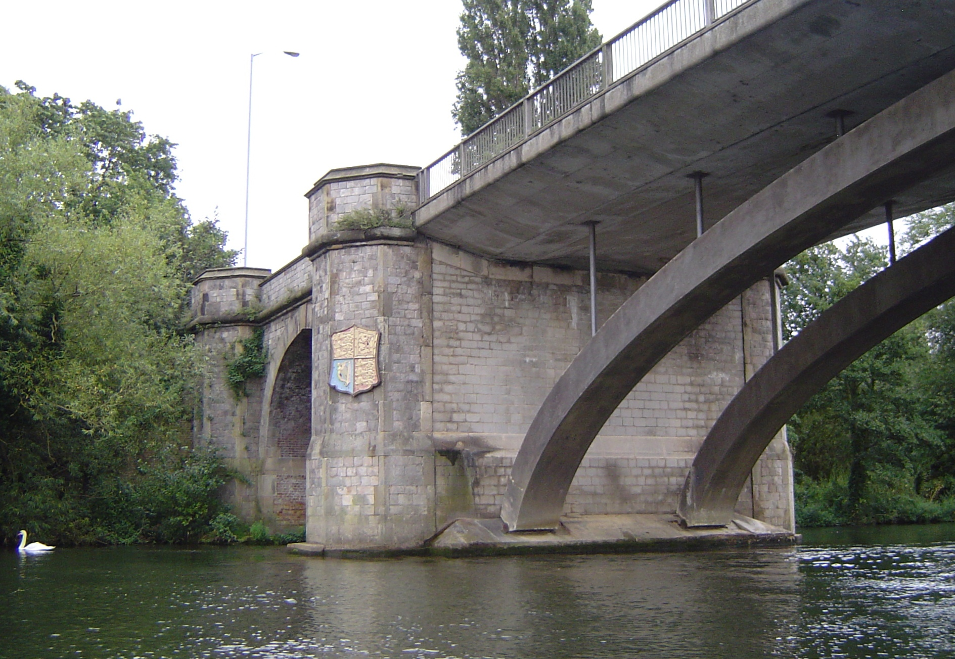 Victoria Bridge near Windsor River Thames